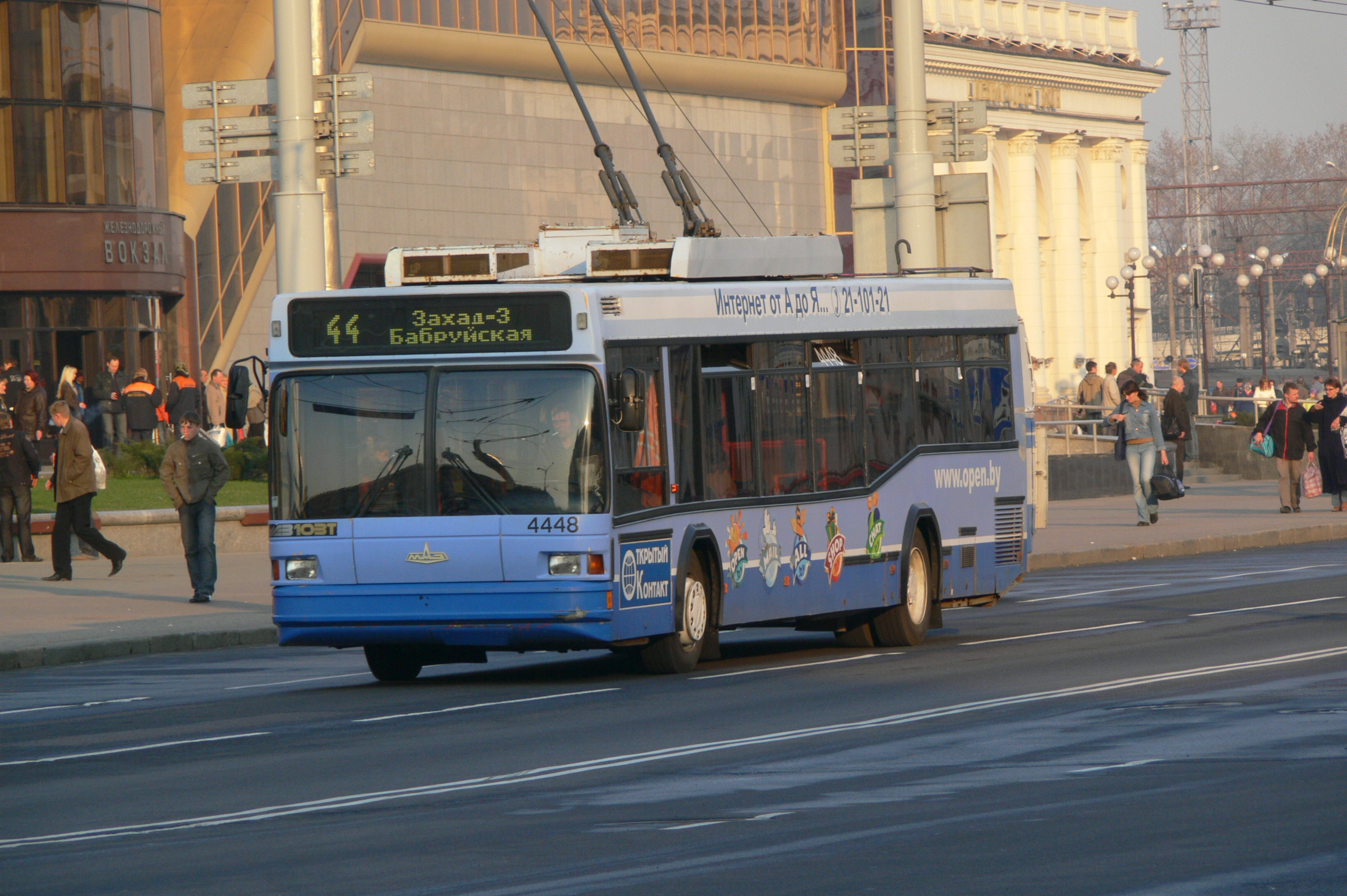 Belorussian trolleybus of type MAZ-103T in Minsk